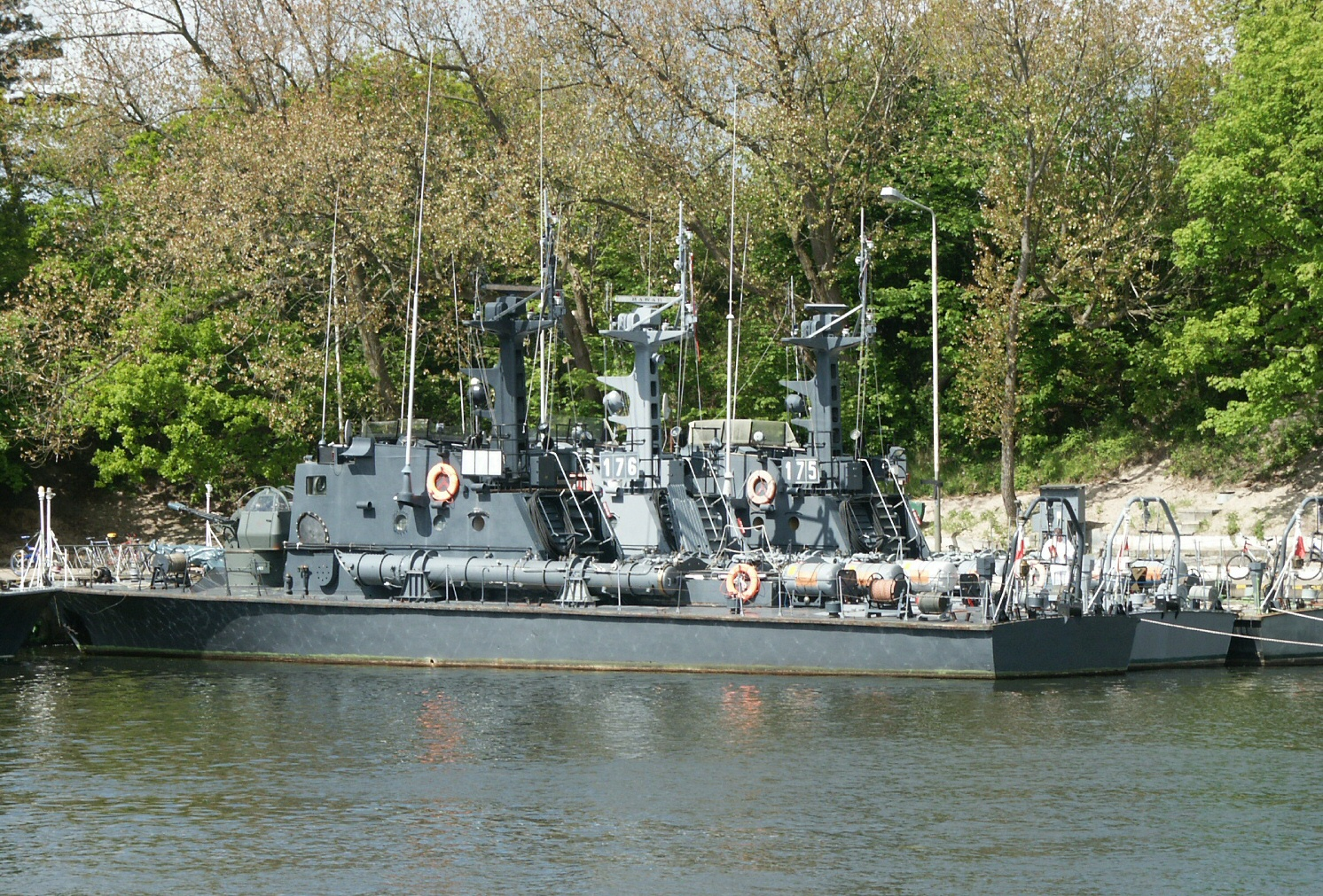 Polish ASW craft Project 918M ('Pilica') class, from the left: KP-173, KP-176, KP-175 in Kołobrzeg.